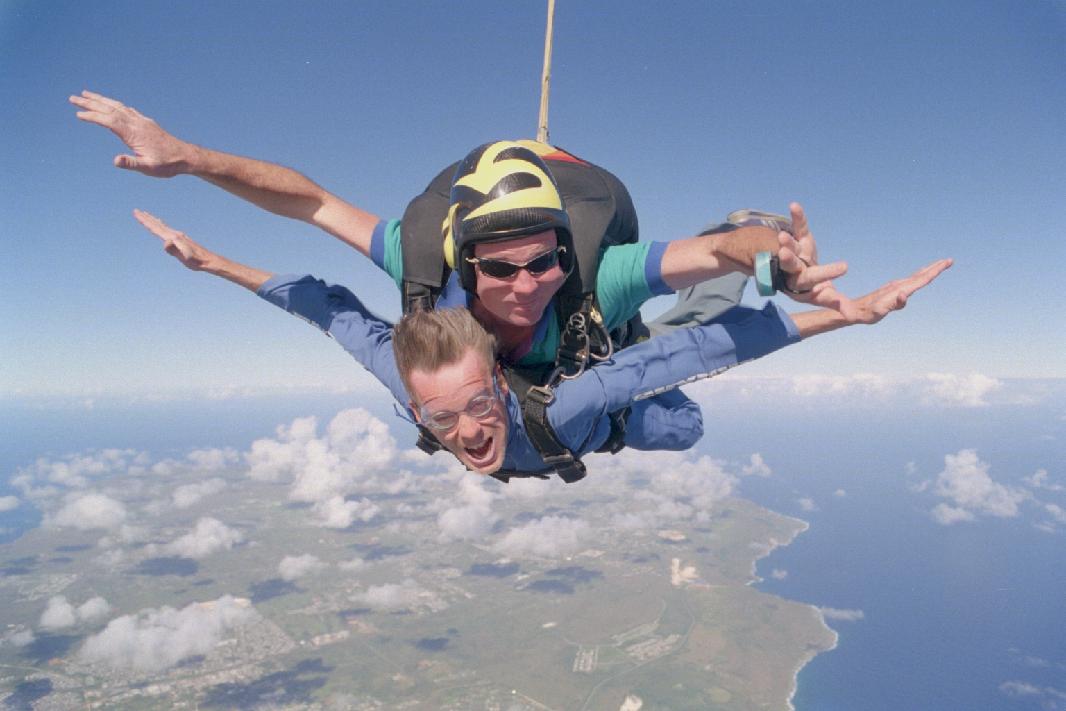 two parachuters skydiving